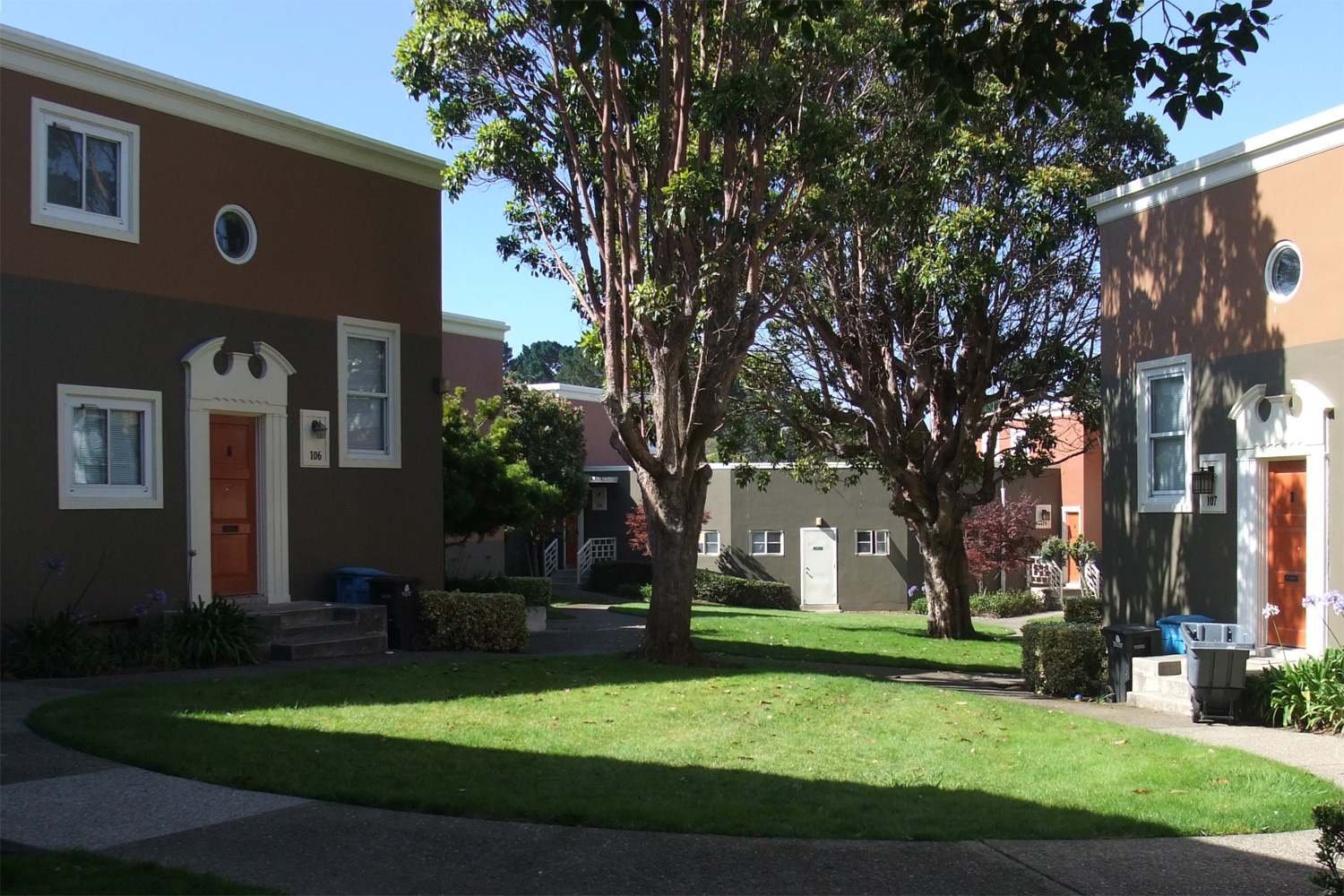 One of the many unique courtyards in the Parkmerced neighborhood in San Francisco.